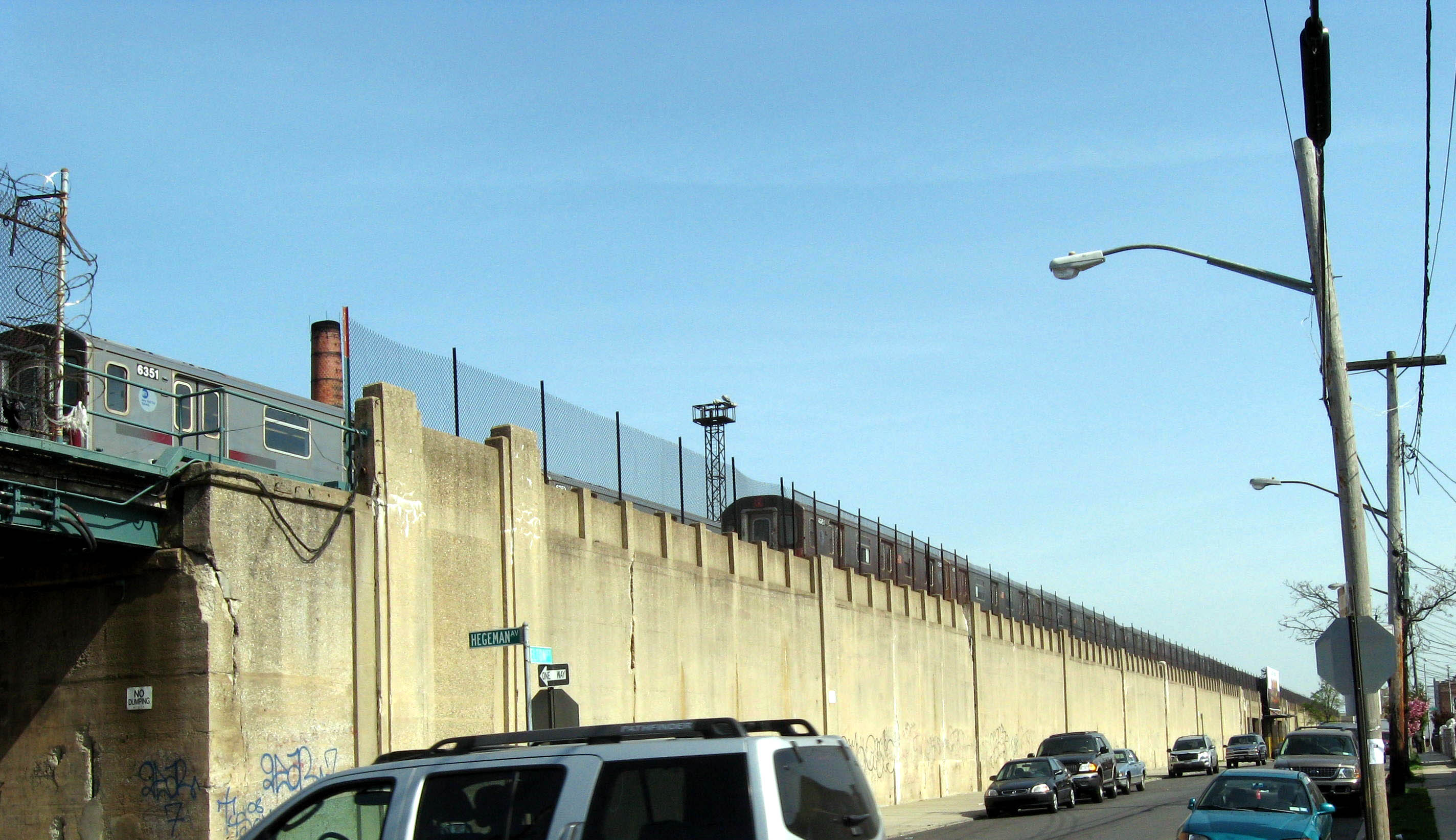 Looking southeast on a sunny spring afternoon at Livonia Yard south of New Lots Avenue terminal station of New Lots Line. ZIP 11208